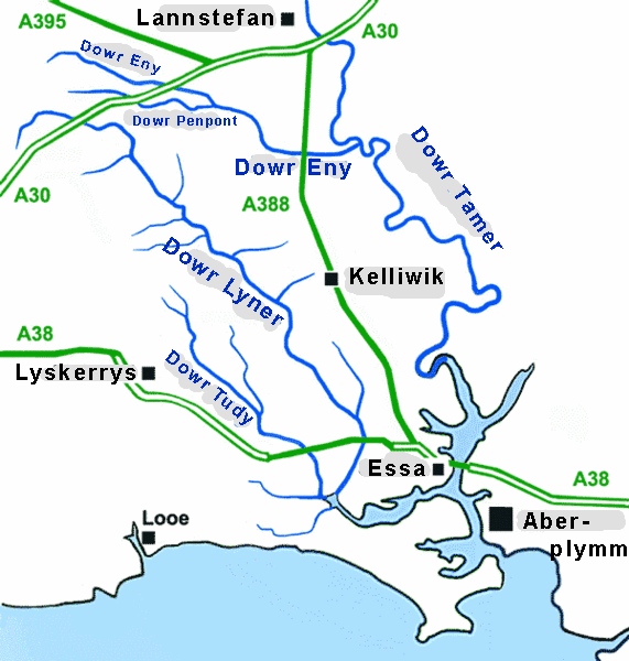 Cornish rivers in the Cornish language; south east. Mainly Dowr Tamer